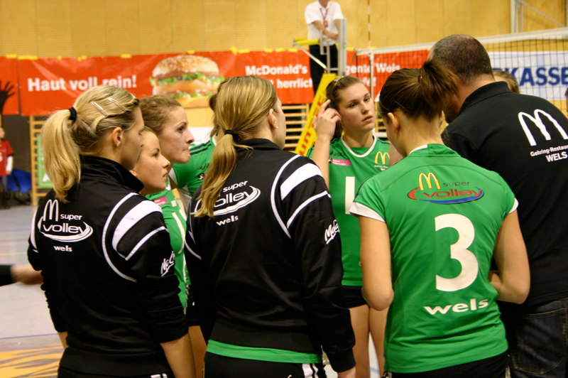 Team Bundesliga Supervolley Wels